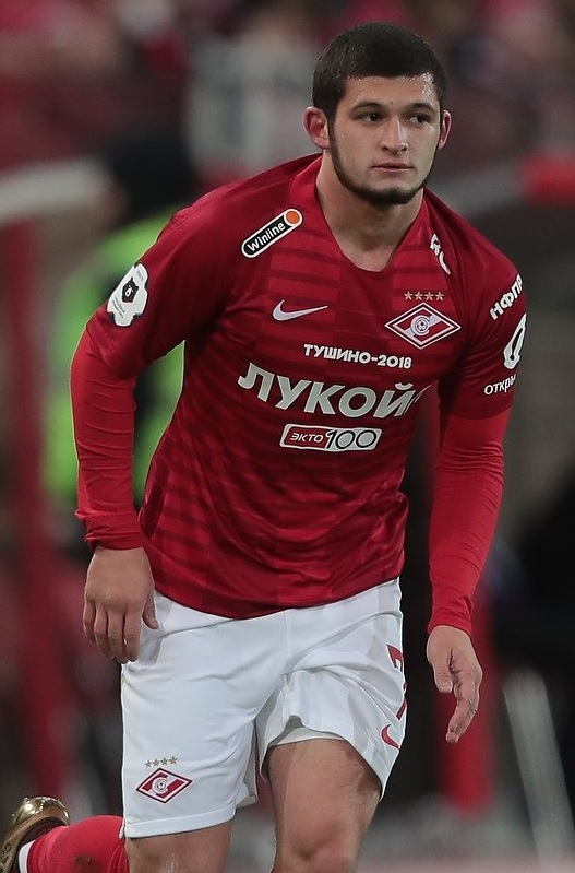 Ayaz Guliyev with FC Spartak Moscow in a game against FC Krasnodar.